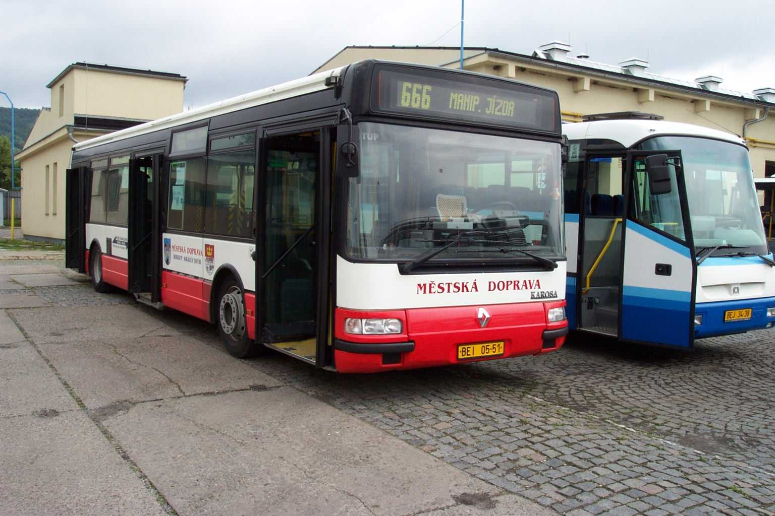 Beroun, bus type Karosa-Irisbus Citybus - Autobus typu Irisbus Citybus v Berouně